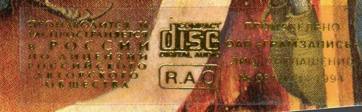 Excise CD stamp of Russia, 1996